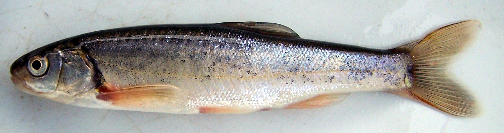 Southern leatherside chub taken from Salina Creek, near Salina, Utah, USA.